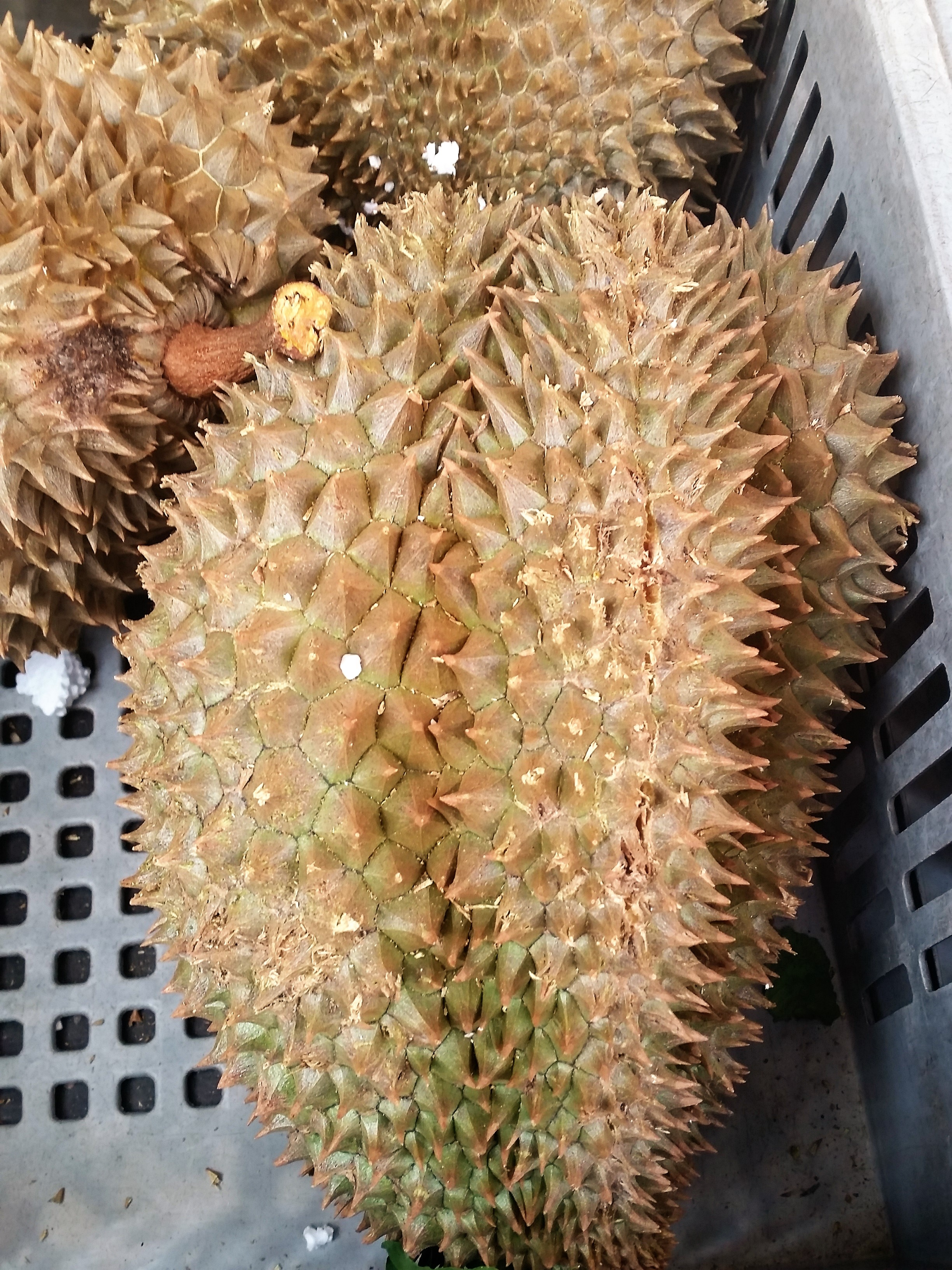 Durian (Durio zibethinus) fruits in the North End Road Market, in London, England.